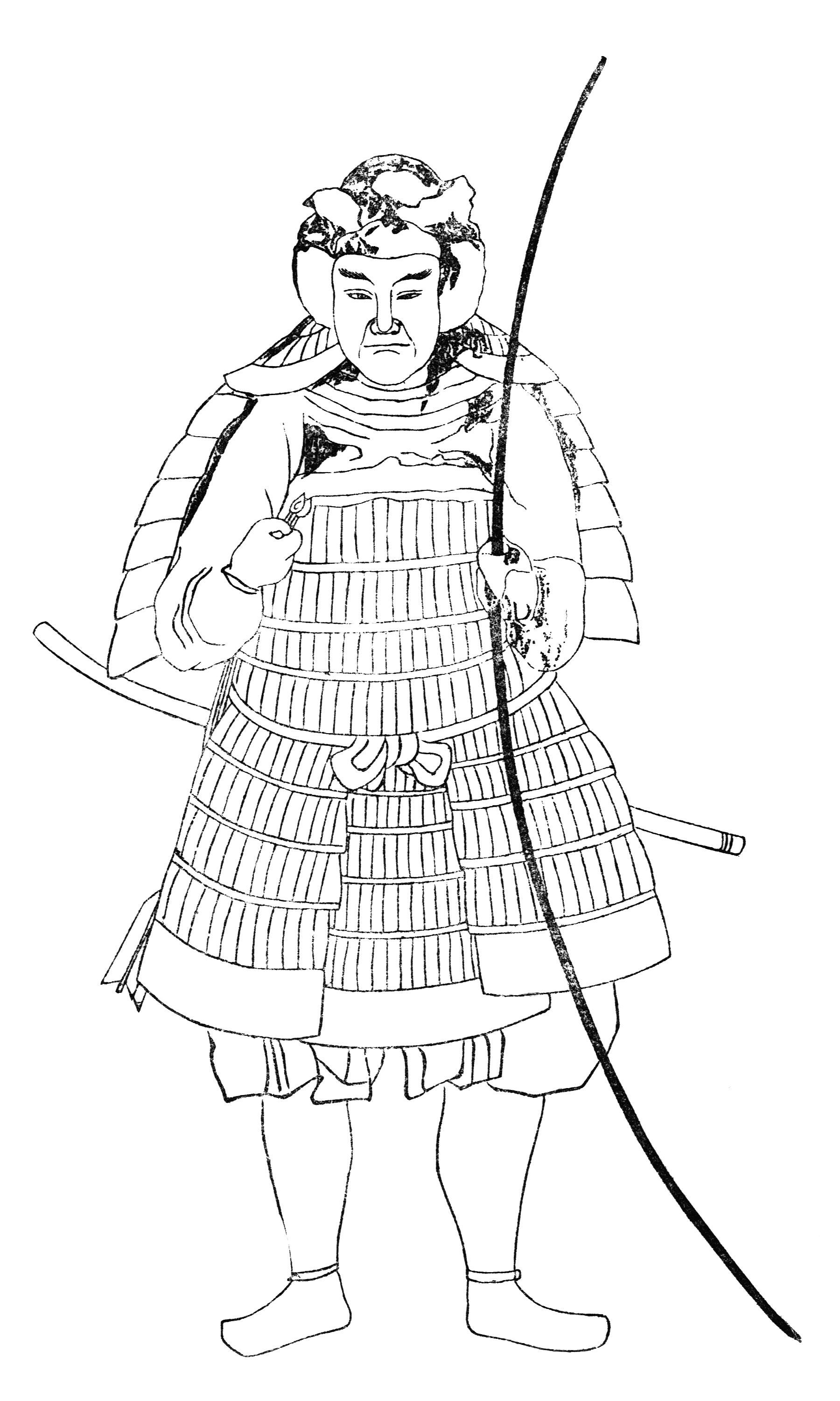 Wooden statue of Minamoto no Yoshikuni